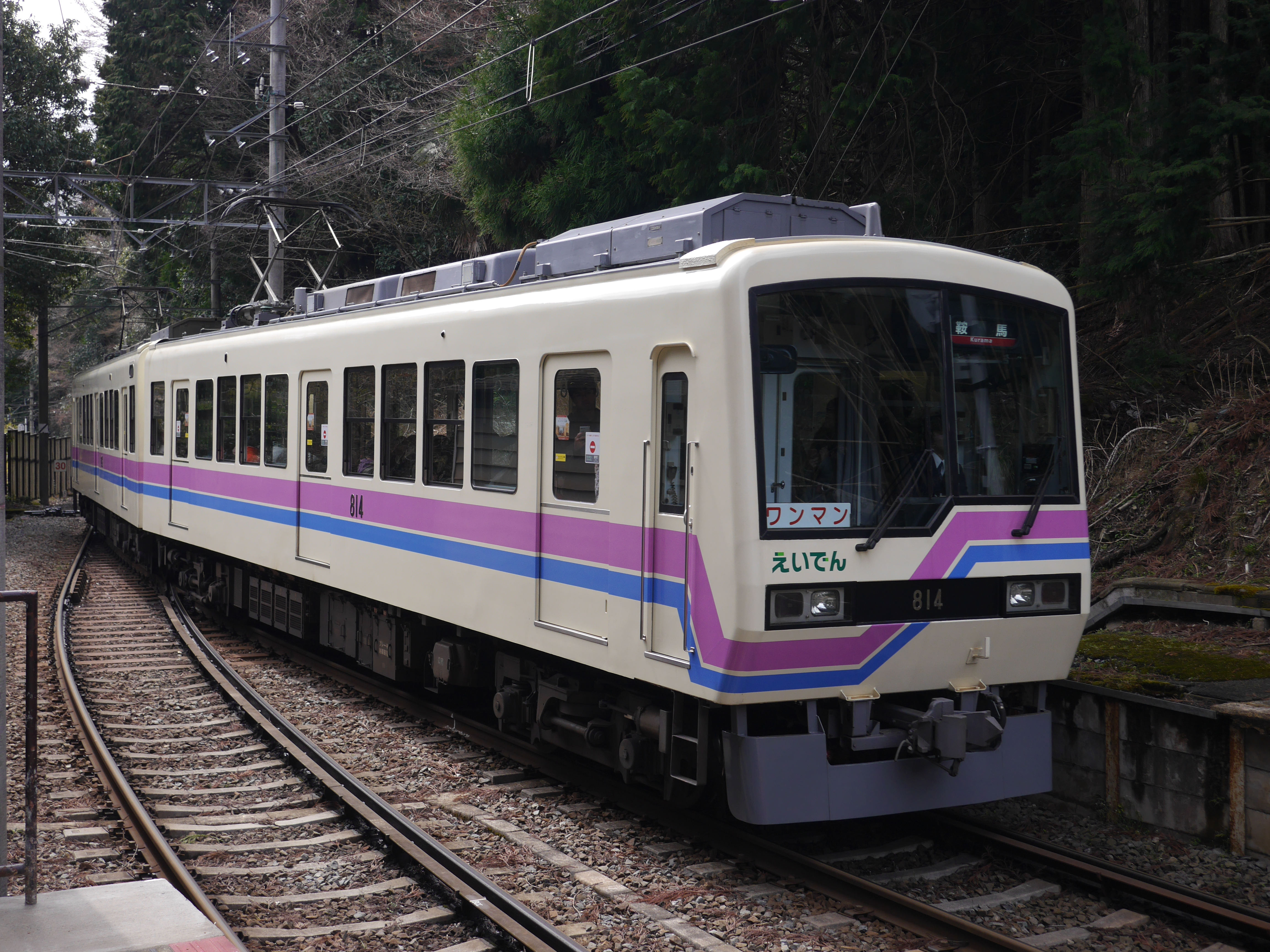 Eizan Electric Railway Deo (Large size driving motor car) 814 approaching Ninose station